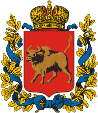 Coat of arms of Grodno Governorate, Russian Empire